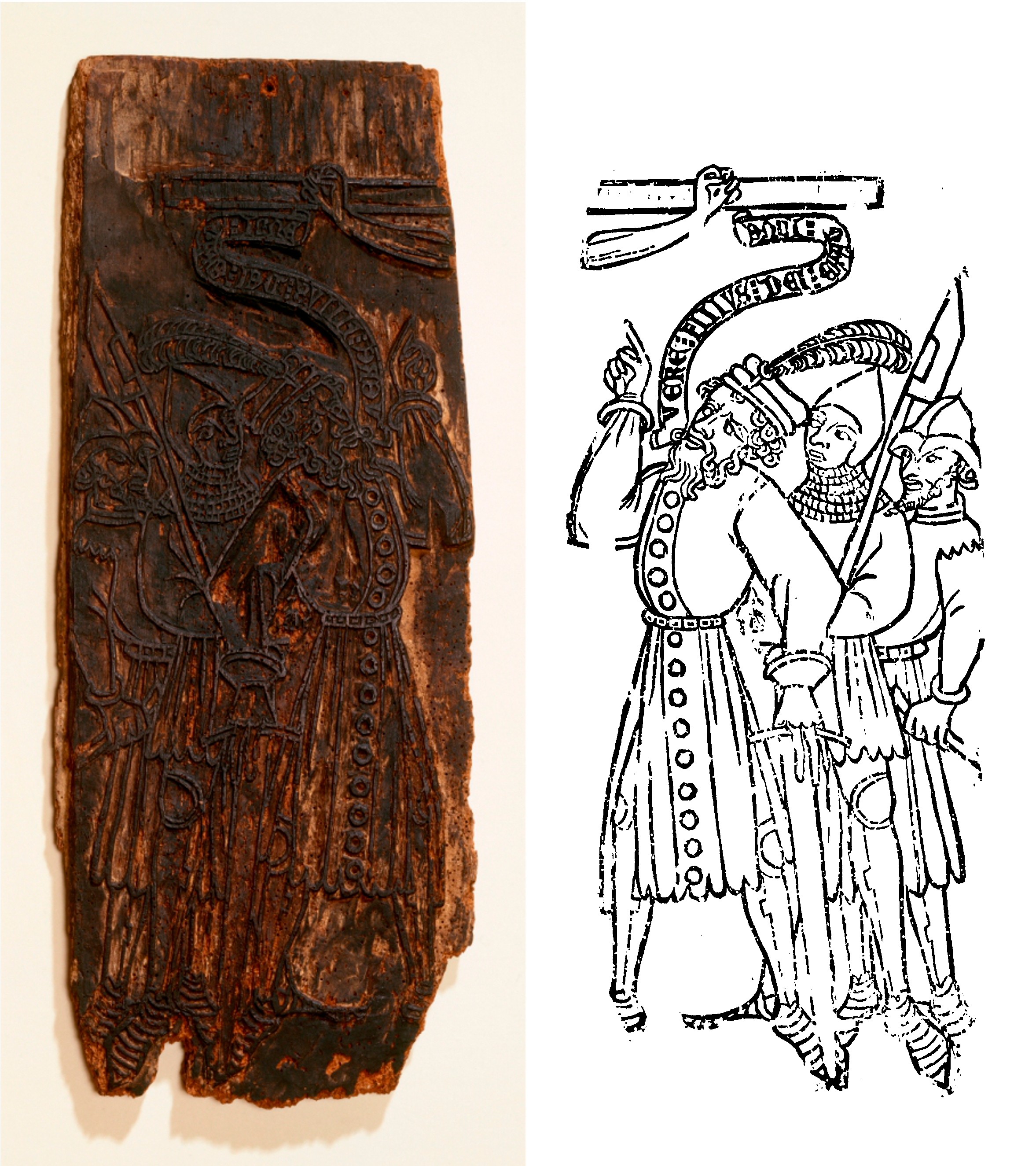 Printing block and print of the bois Protat.